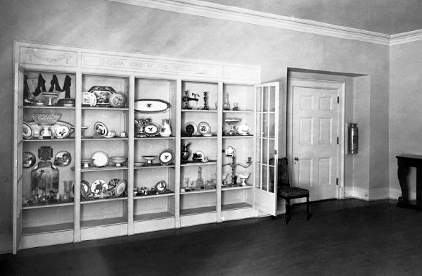 The Presidential Collection Room, now the White House China Room in 1918 after its creation by First Lady Edith Bolling Galt.